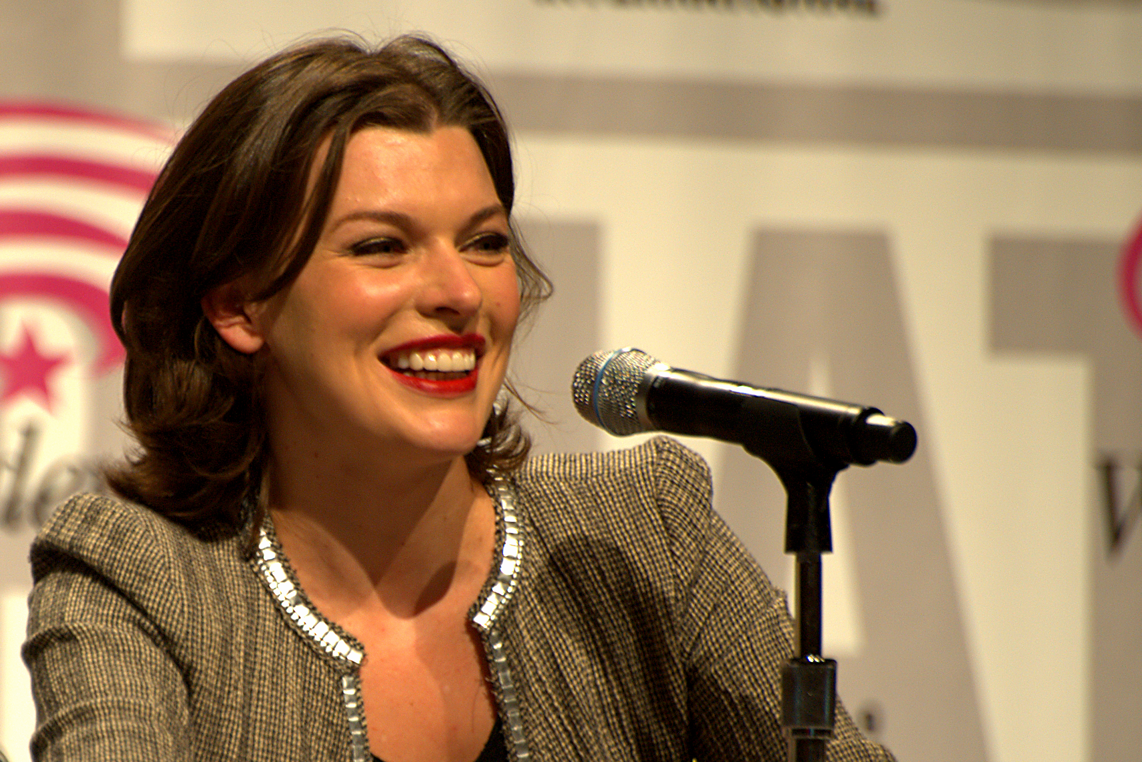 Milla Jovovitch at a panel for Resident Evil: Afterlife at WonderCon 2010.